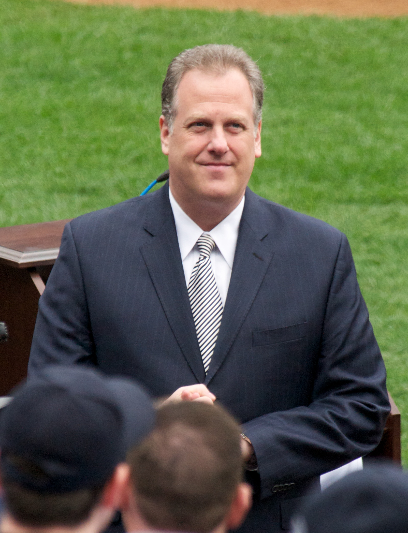 Yankees broadcaster Michael Kay.